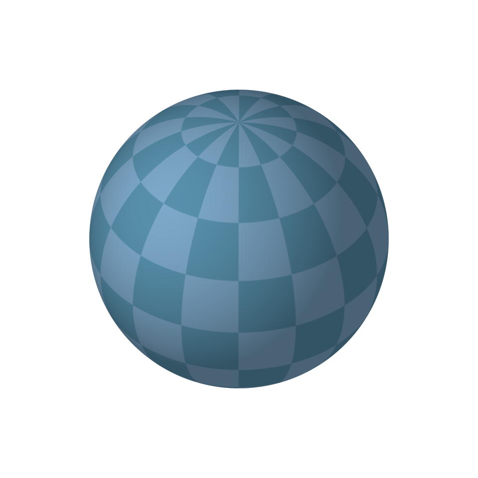 Blue sphere This image was created with POV-Ray.